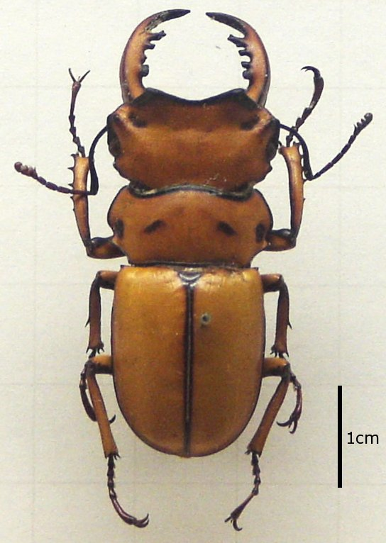 Homoderus mellyi (Lucanidae), mounted specimen from West Africa.